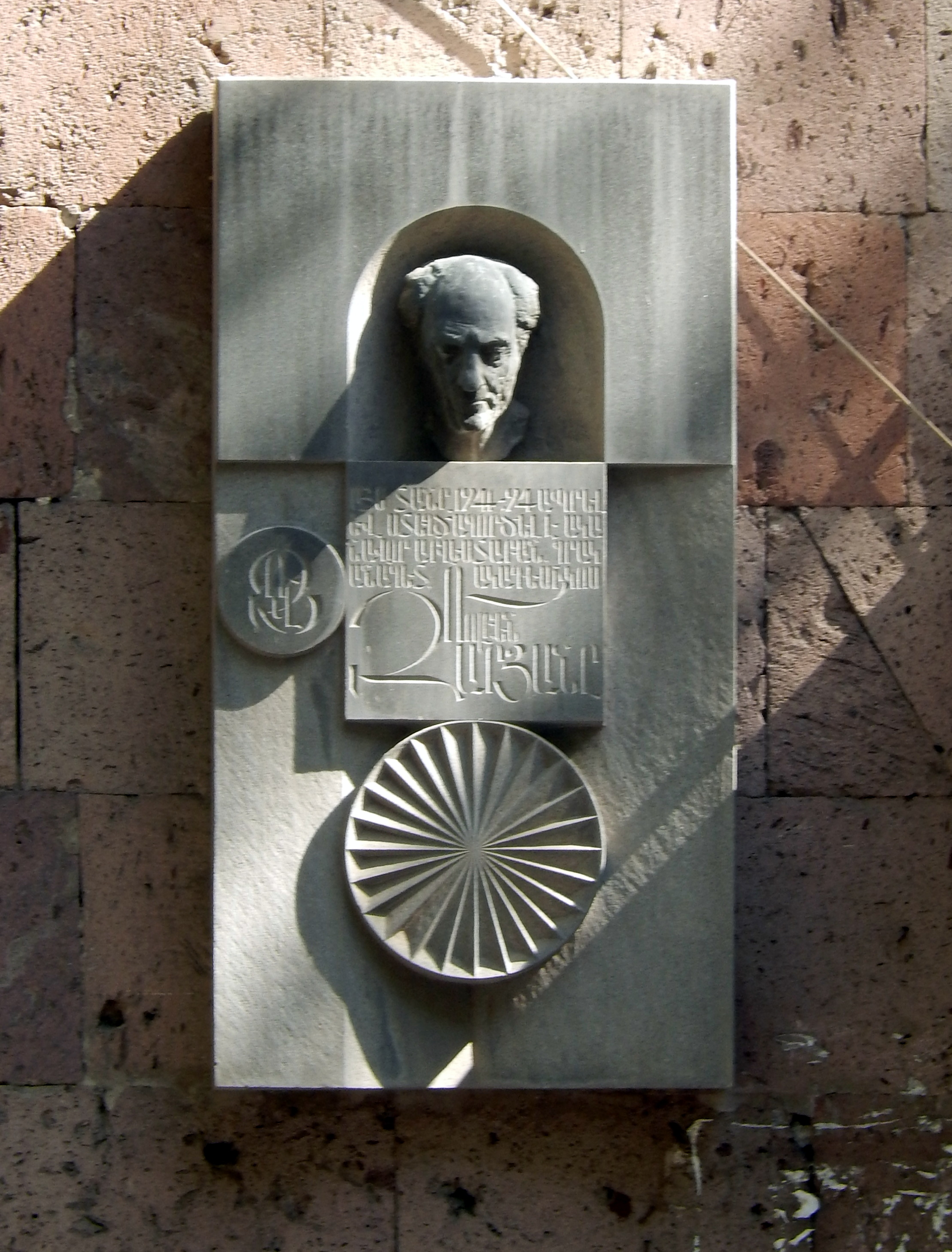 Rouben Zaryan's plaque, in Yerevan